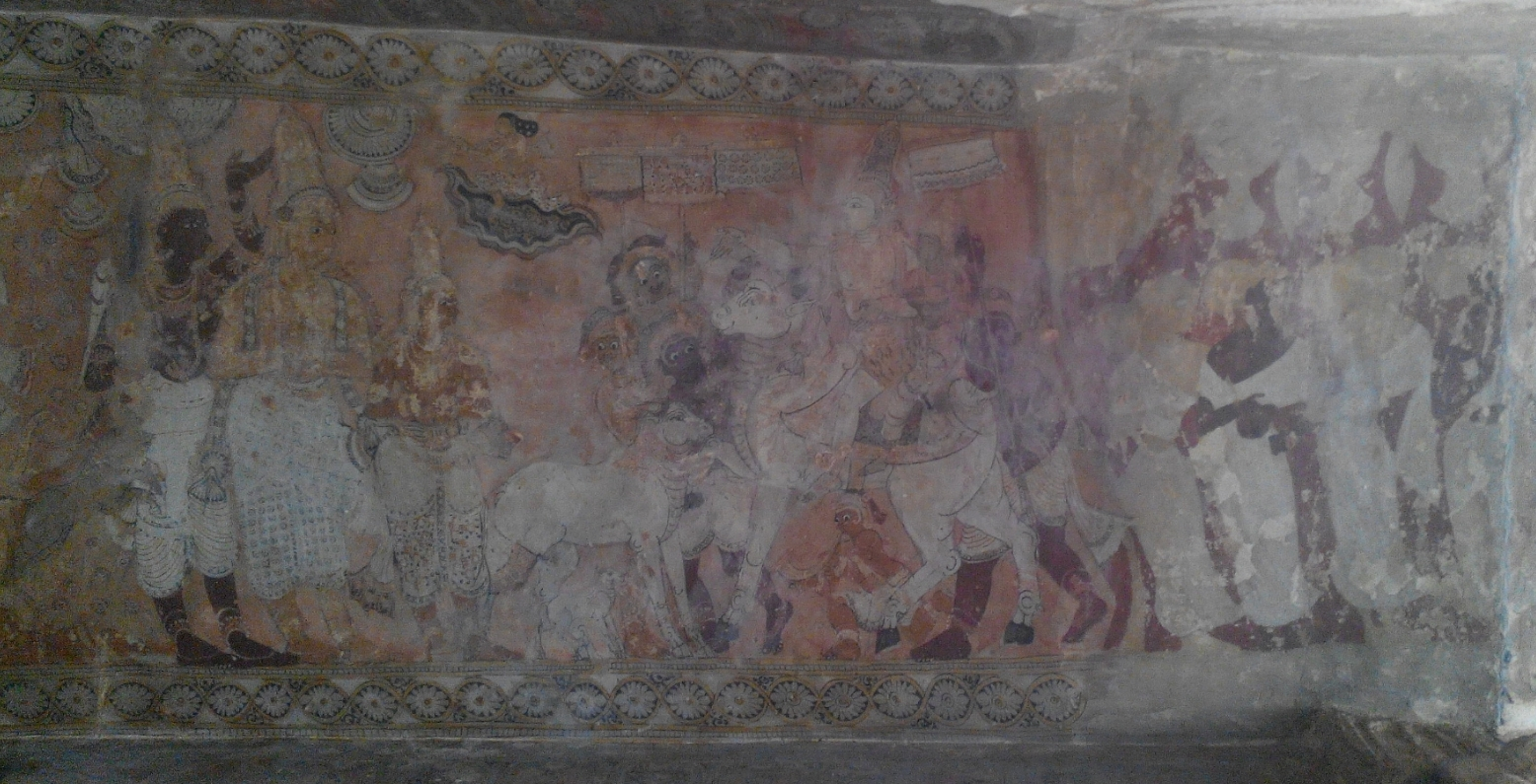 இது லேபாட்சி வீரபத்திரர் கோயில் விதானத்தில் உள்ள மனு நீதி சோழனின் வாழ்க்கையைக் குறிப்பிடும் ஓவியங்களில் ஒன்று. இந்த ஓவியமானது, கன்றை தேரேற்றிக் கொன்றுவிட்ட சோழ இளவரசனுக்கு தண்டனையாக அவனை தேர்காலில் இட்டு கொன்ற சோழனின் செயலைப் பாராட்டி கன்றையும், இளவரசனையும் உயிர்பித்து அருளாசி வழங்கும் சிவனை சித்தரிக்கிறது.